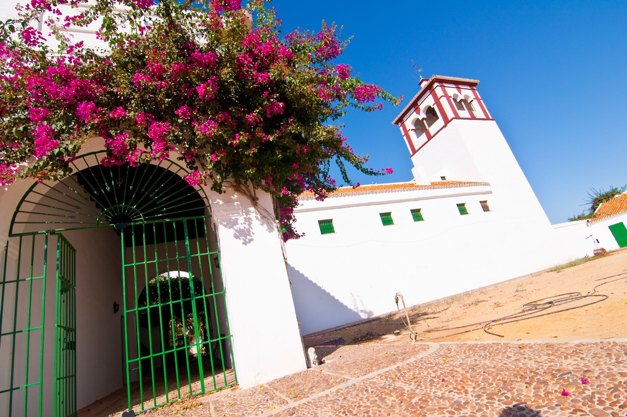 View of one of the three towers of the Hacienda Guzman.